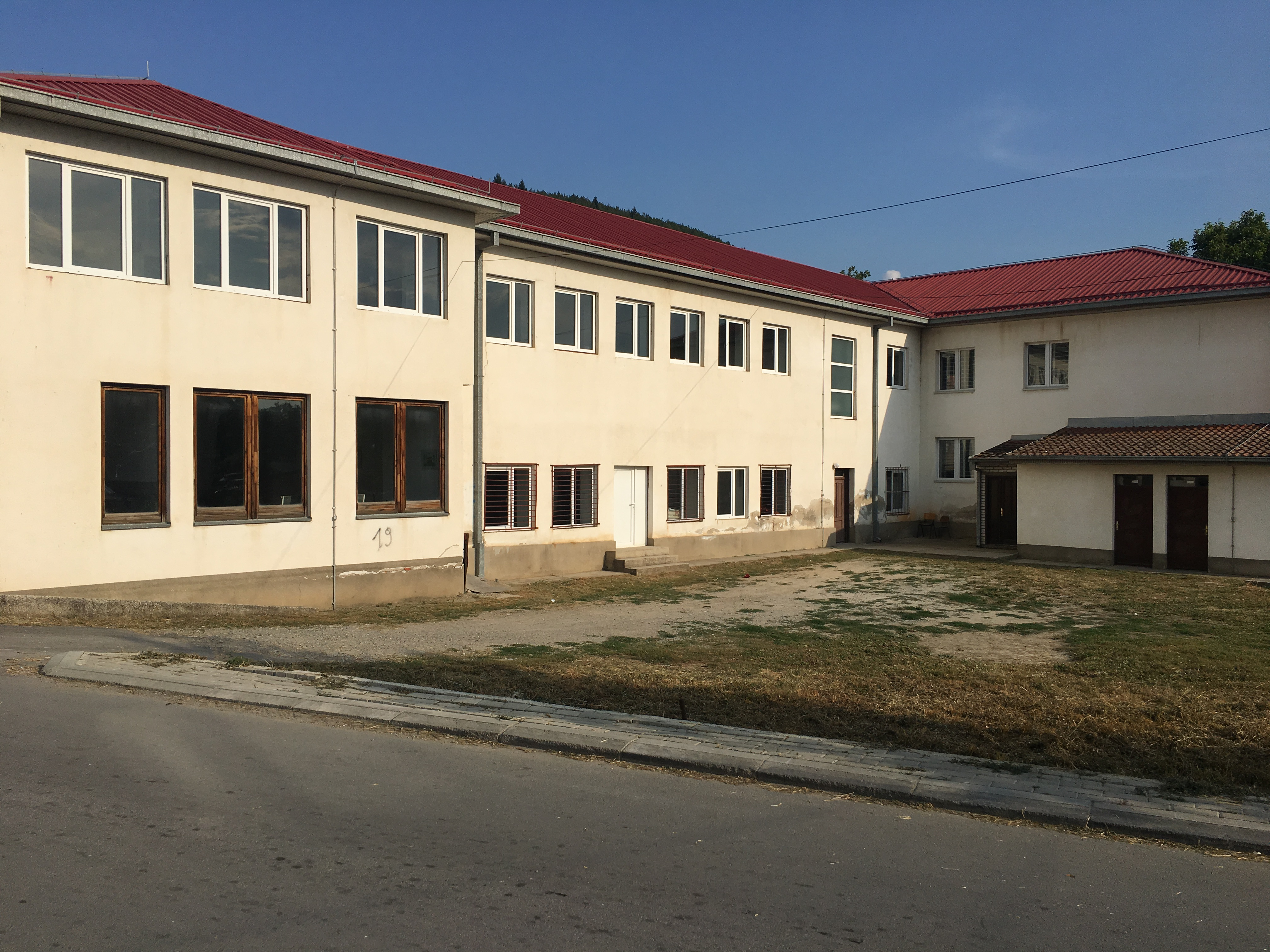 Vančo Nikoleski Primary School in the village of Kosel